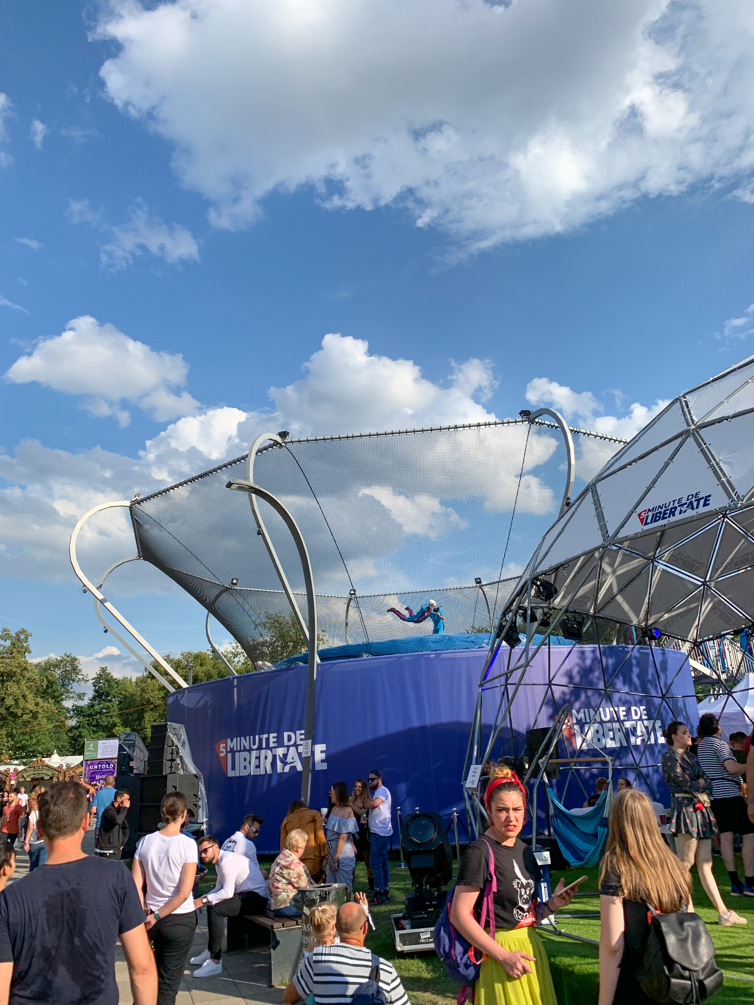 Untold festival offers many activities for everyone.